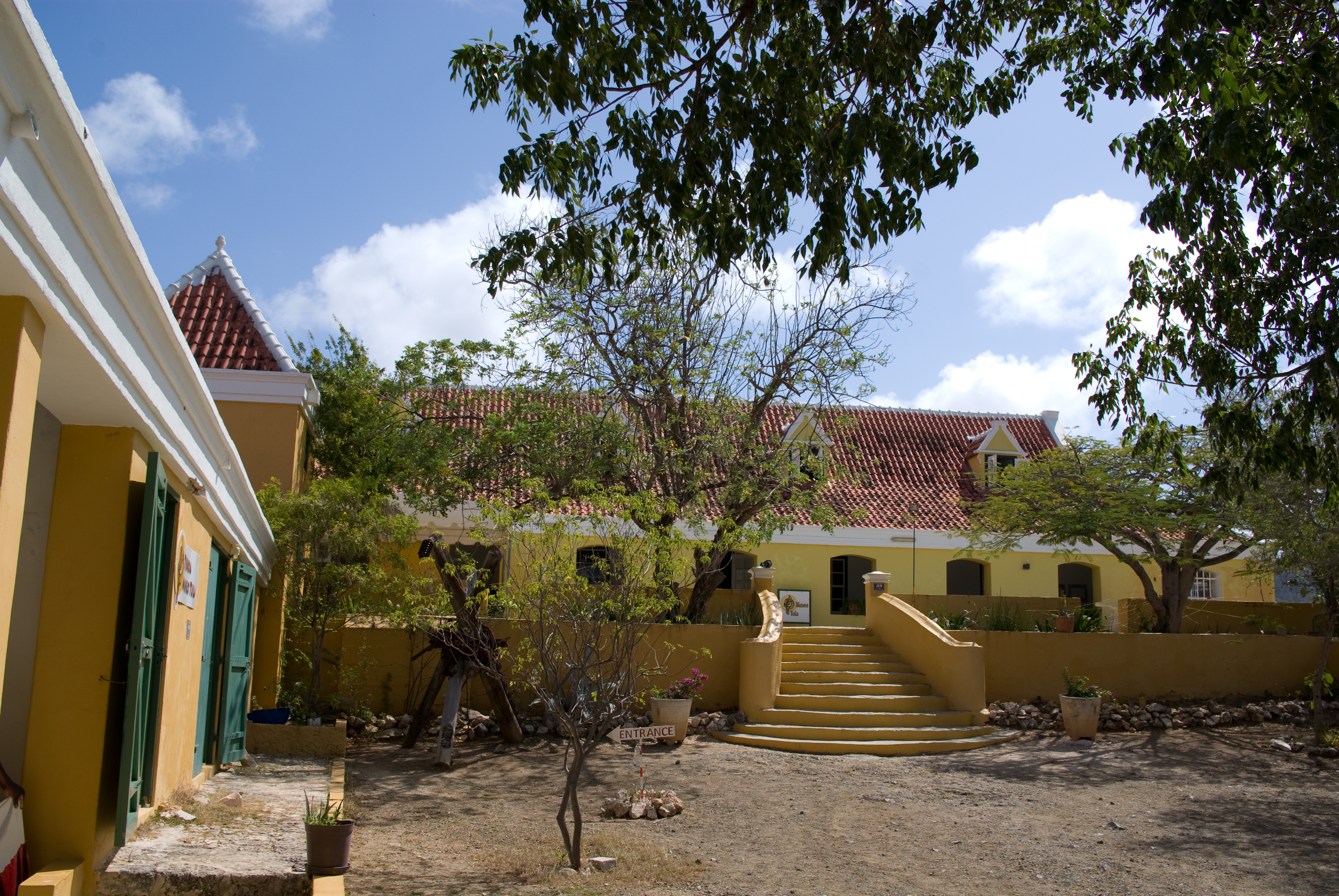 Landhuis Kenepa, a 17th century plantation house near the western coast of Curaçao, was the site of a 1795 slave revolt that swept across the region. The slaves of Landhuis Kenepa, led by a man named Tula, joined together on the morning of August 17, 1795 to demand that they would no longer work for Shon Caspar Lodewijk van Uytrecht, the plantation's owner. Unable to resist, van Uytrecht told the group to lodge their complaints with the governor in Fort Amsterdam. Over the next two months, Tula and his men were able to gain control of much of the region, freeing slaves at each plantation as they went. Eventually, the island's government offered a pardon to all of the rebels if they would give up the fight. Tula refused, however, stating that what they wanted was their freedom. In late September 1795, Tula was captured by a slave who had stayed loyal to his white master. He was taken to Fort Amsterdam, where he was tortured and ultimately beheaded, his head put on a spike for public display. Following the end of the Atlantic slave trade, slavery slowly declined on Curaçao. When it was formally abolished in 1863, only about 7,000 individuals remained in slavery. A museum commemorating Tula and life under slavery is currently housed in the Landhuis Kenepa.